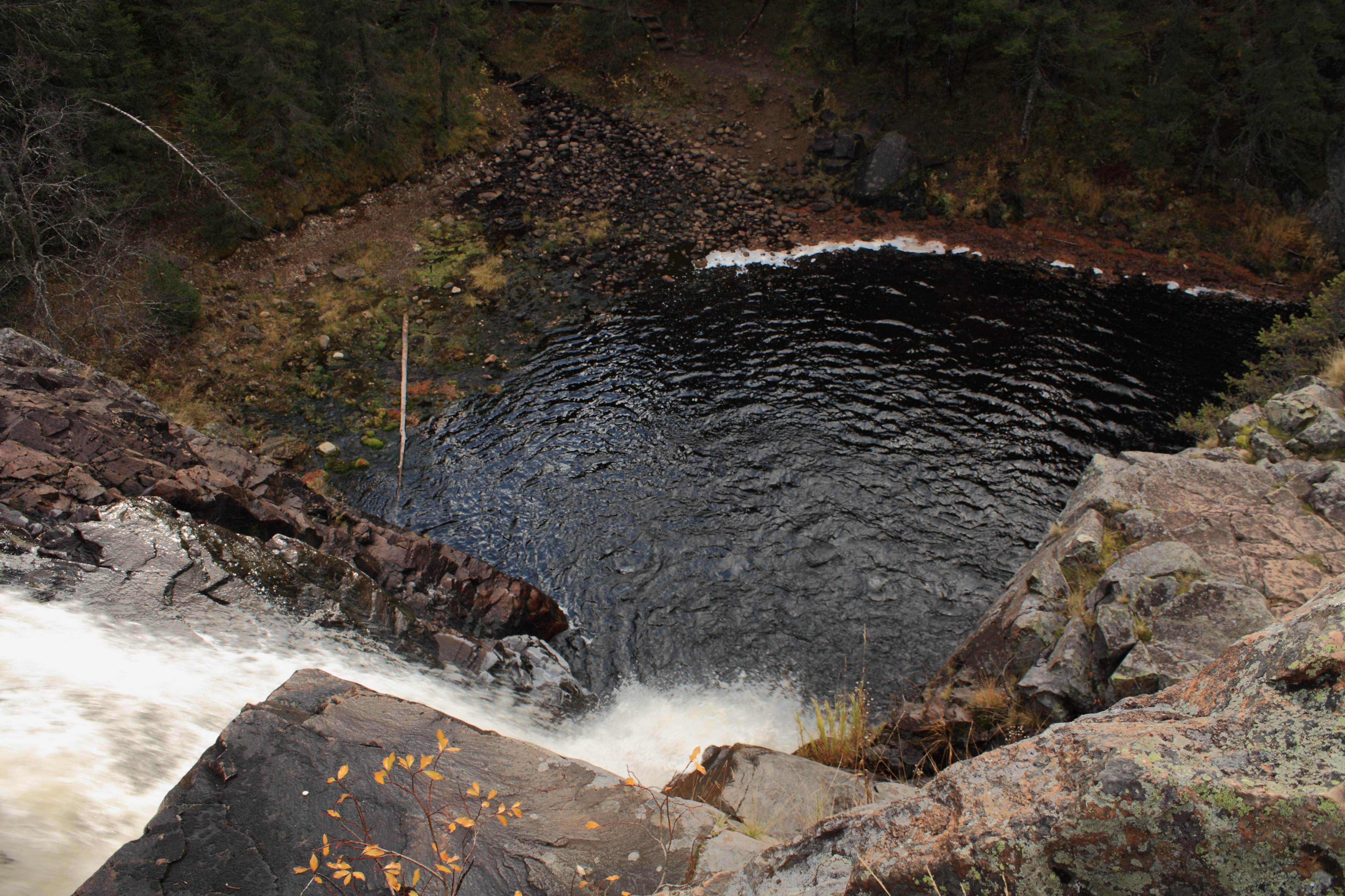 Hepoköngäs waterfall, in Puolanka, Finland, shot from above.